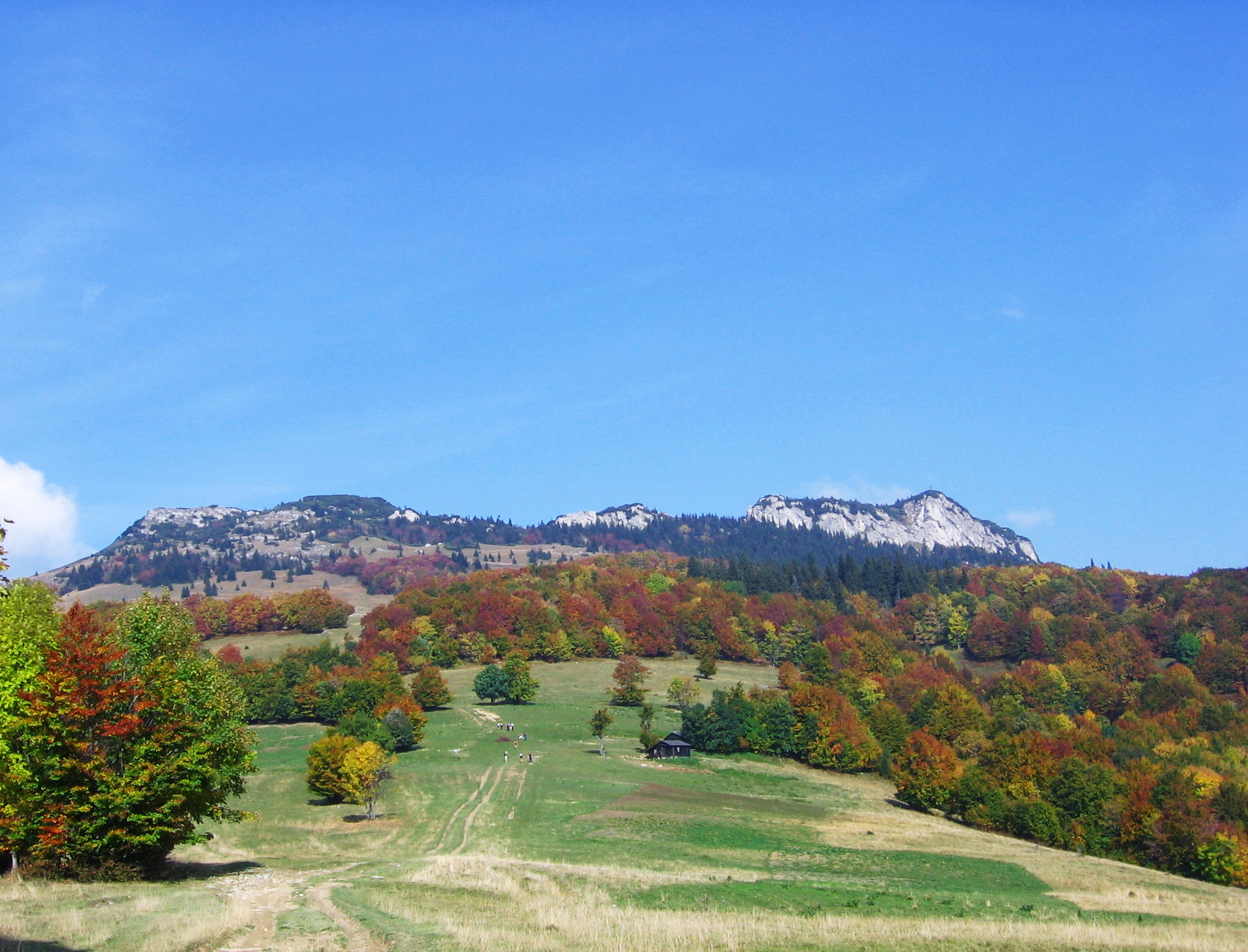 Čierny kameň (eng. Black stone) mountain in Veľká Fatra, Liptovský Mikuláš district in central Slovakia. It's height is 1479,4 m.